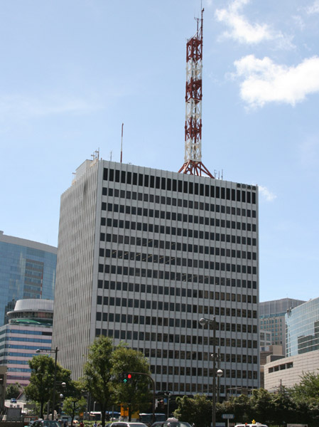 Tokyo Head Office.